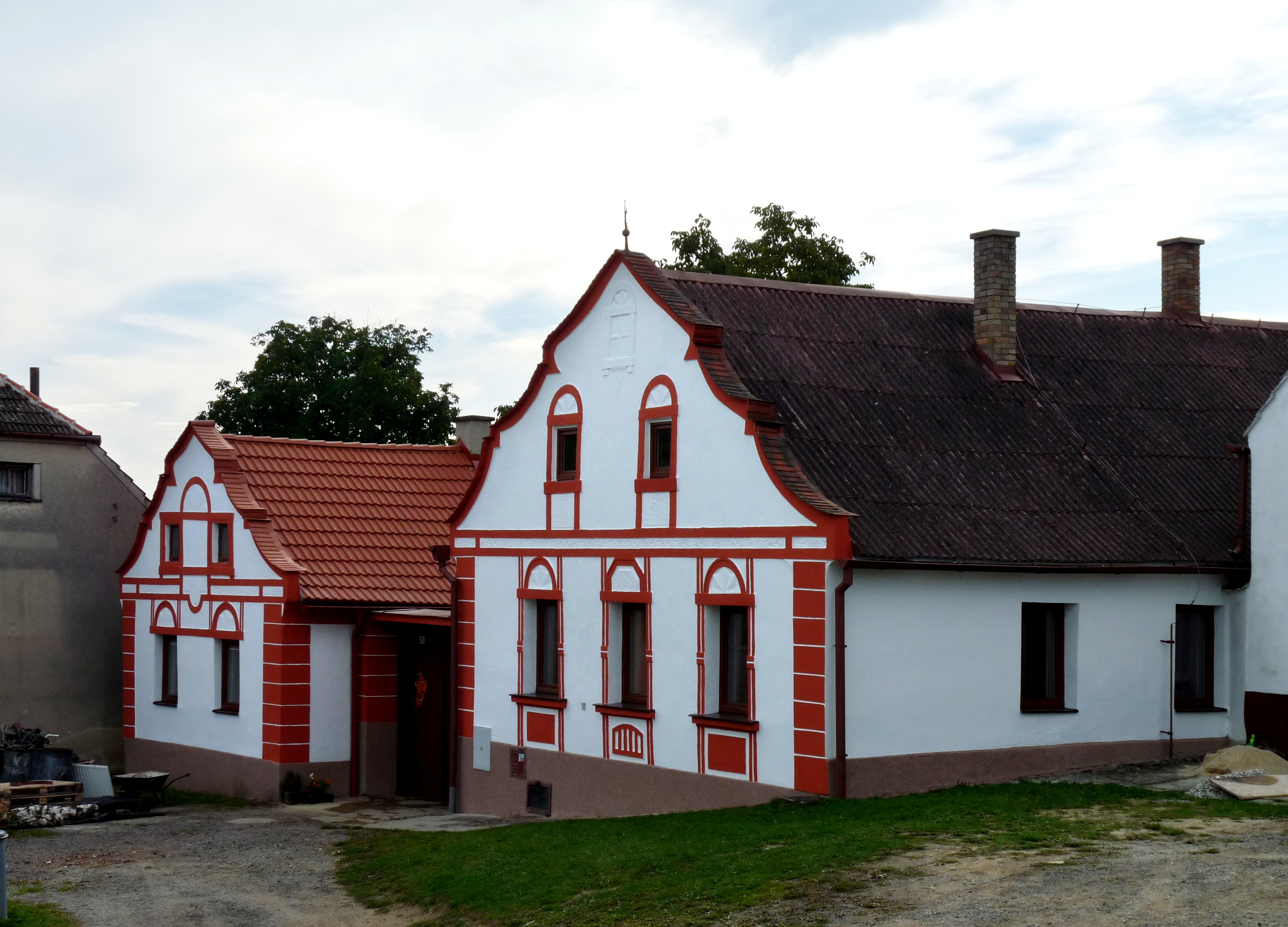 House No 25 in the village of Netřebice, Český Krumlov District, South Bohemian Region, Czech Republic.